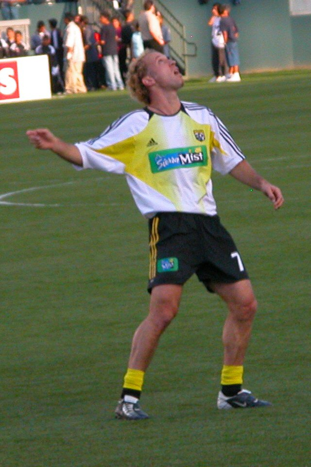 Simon Elliot at the Home Depot Center.